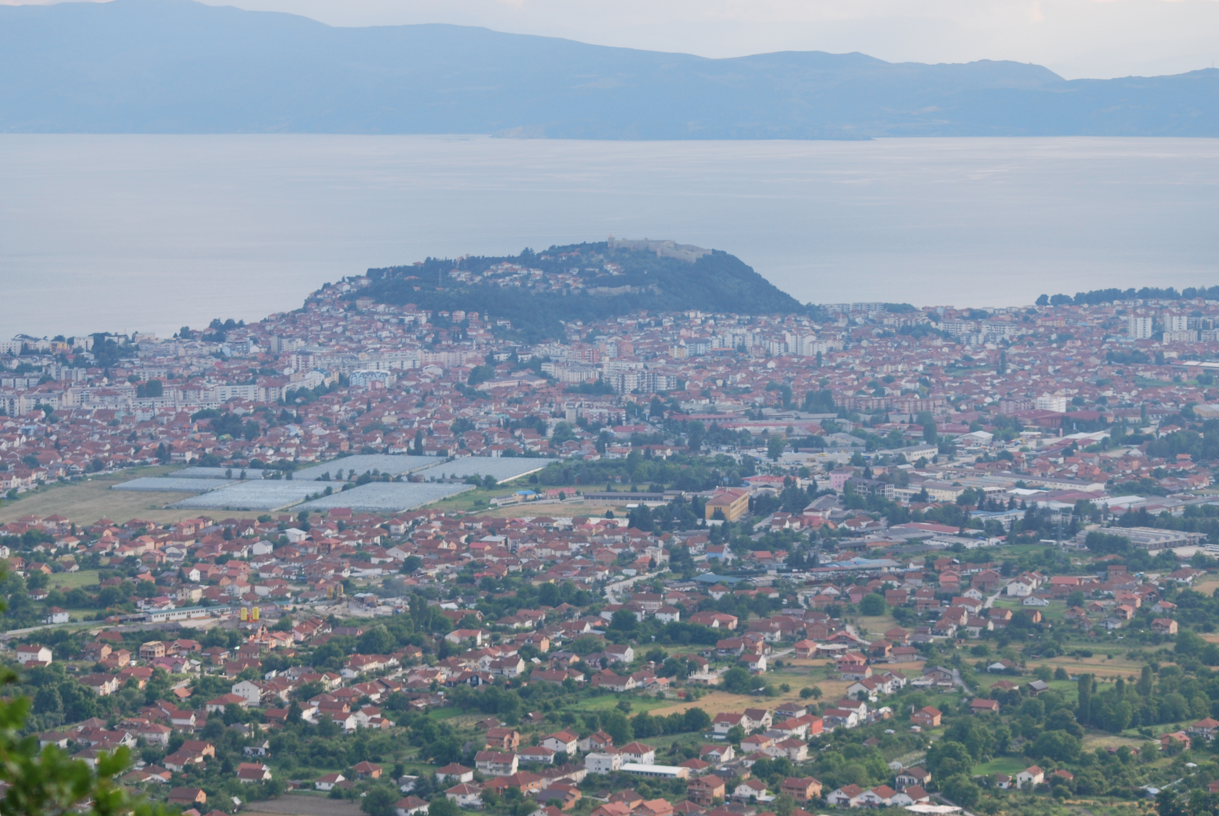 Ohrid, Macedonia